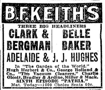 Advertisement for Belle Baker at Keith's, Boston, Massachusetts, USA